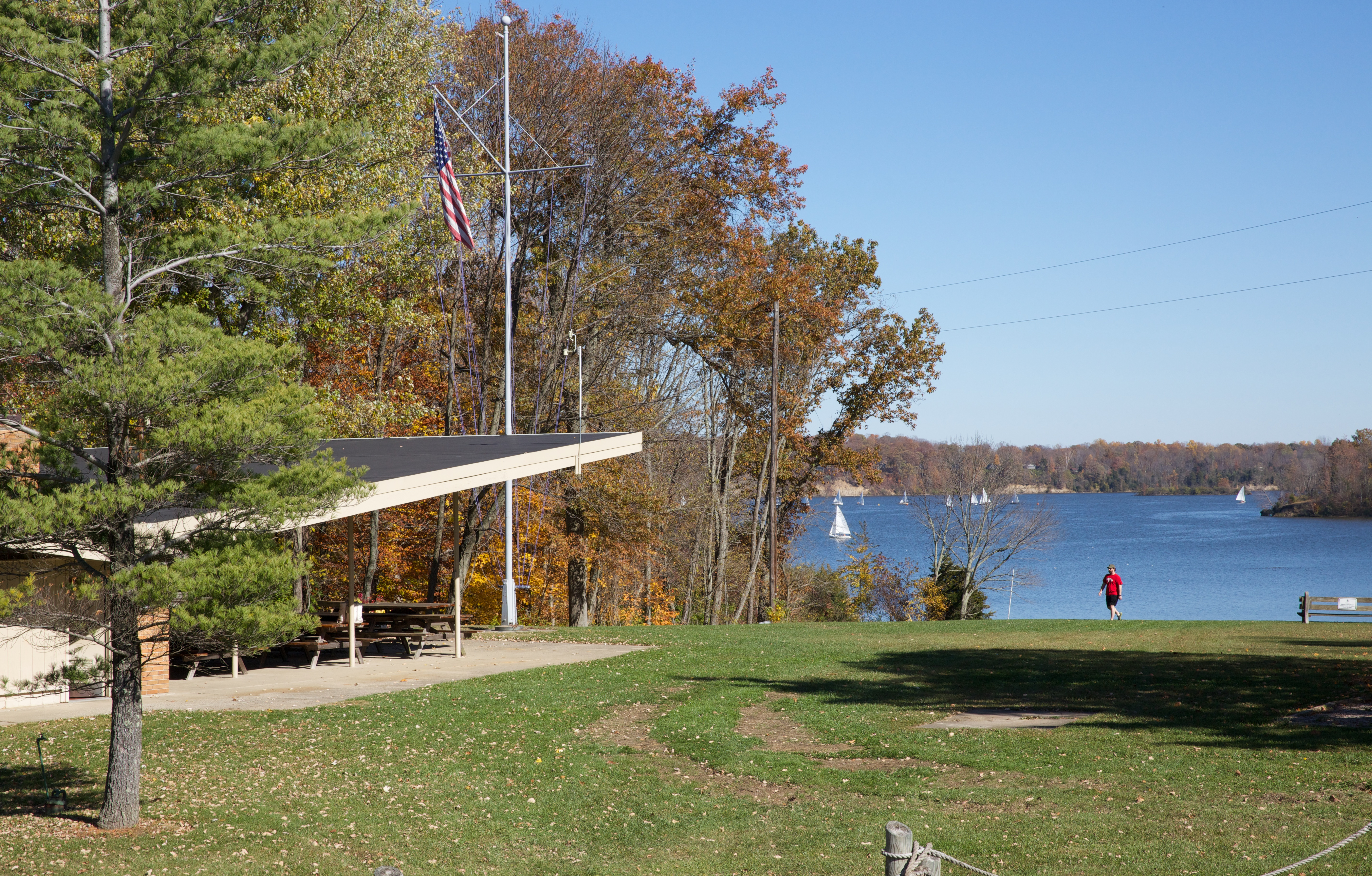 Photograph of the clubhouse of the Cowan Lake Sailing Association and Cowan Lake. Other information No